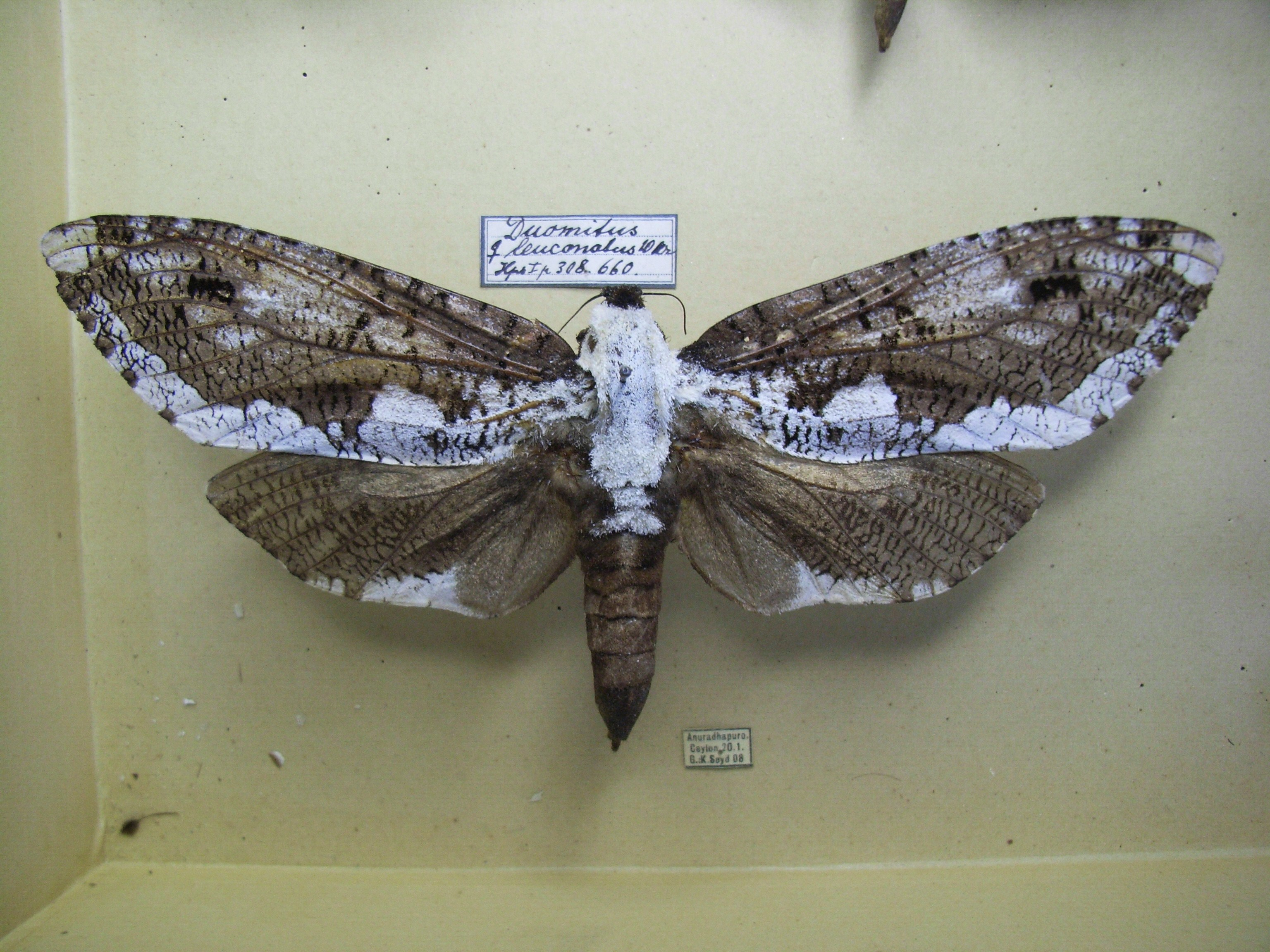 Xyleutes leuconotus (Walker, 1856) (Cossidae: Zeuzerinae); Syn.: Duomitus leuconotus Walker Cossidae Ex coll. Wiesbaden Museum